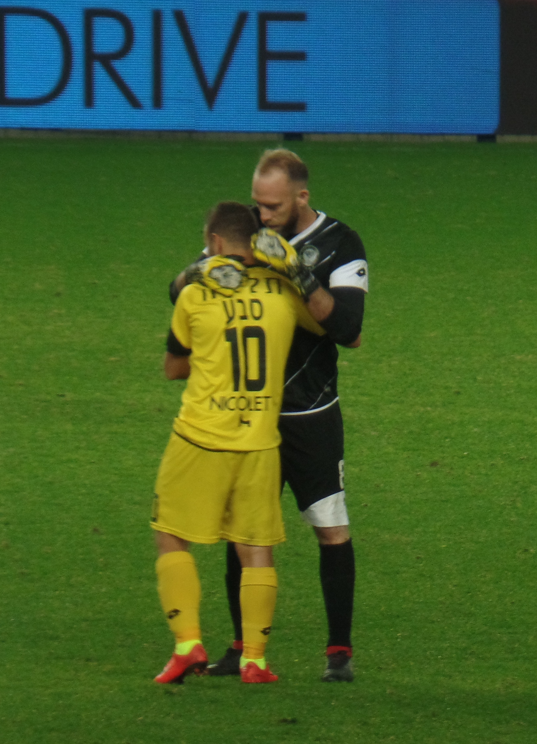 Dia Saba & Danny Amos SAMSUNG CAMERA PICTURES